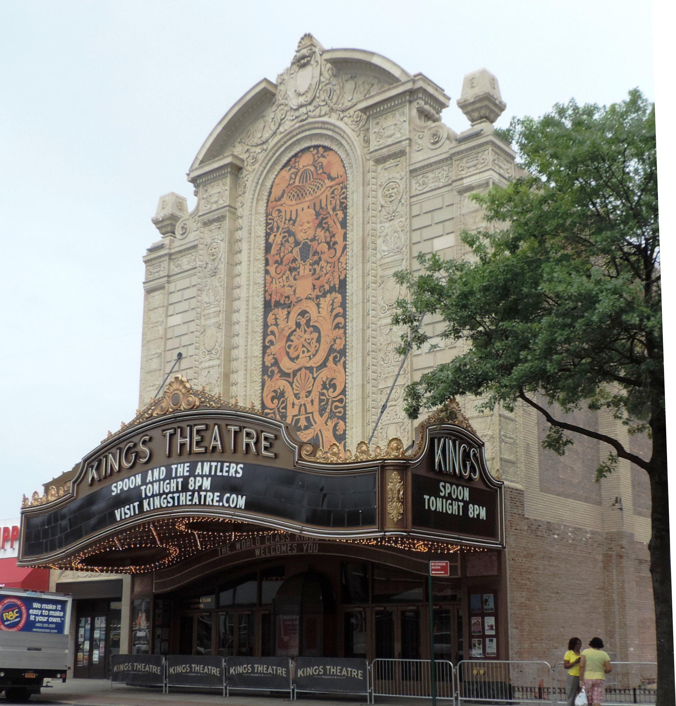 Looking northeast at opened Loew's.